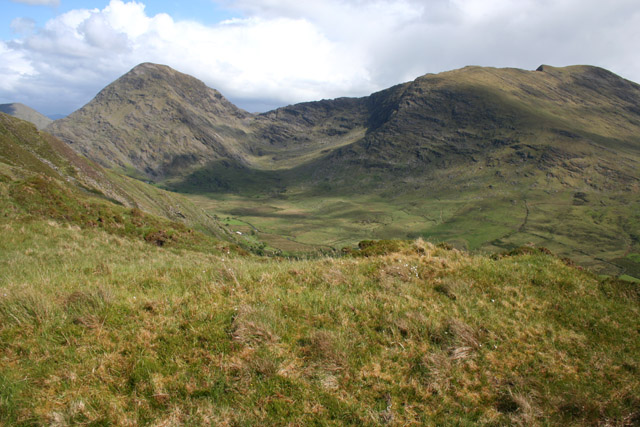 View over the Bridia Valley The Kerry Way climbs to a pass at 377m between Curraghmore (An Currach Mor; 822m) and an unnamed hill (451m), before descending via the zigzags of the Lack Road. This view south east from immediately south of the pass shows the Bridia Valley, with Broaghnabinnia (Bruach na Binne; left) and Stumpa Duloigh (right). The foreground shows the marshy nature of the ground on the south side of the pass